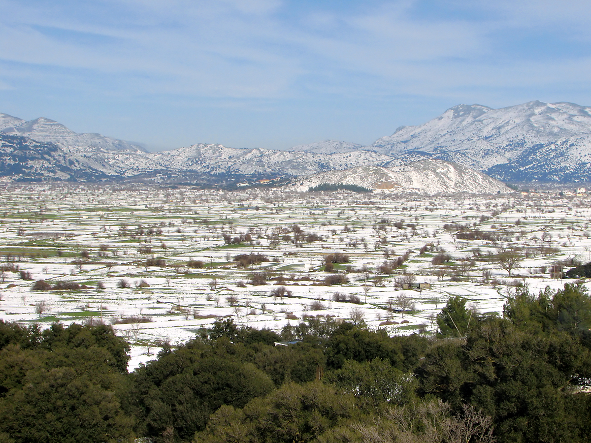 View of Lasithi Plateau from Psychro towards the east covered with snow.